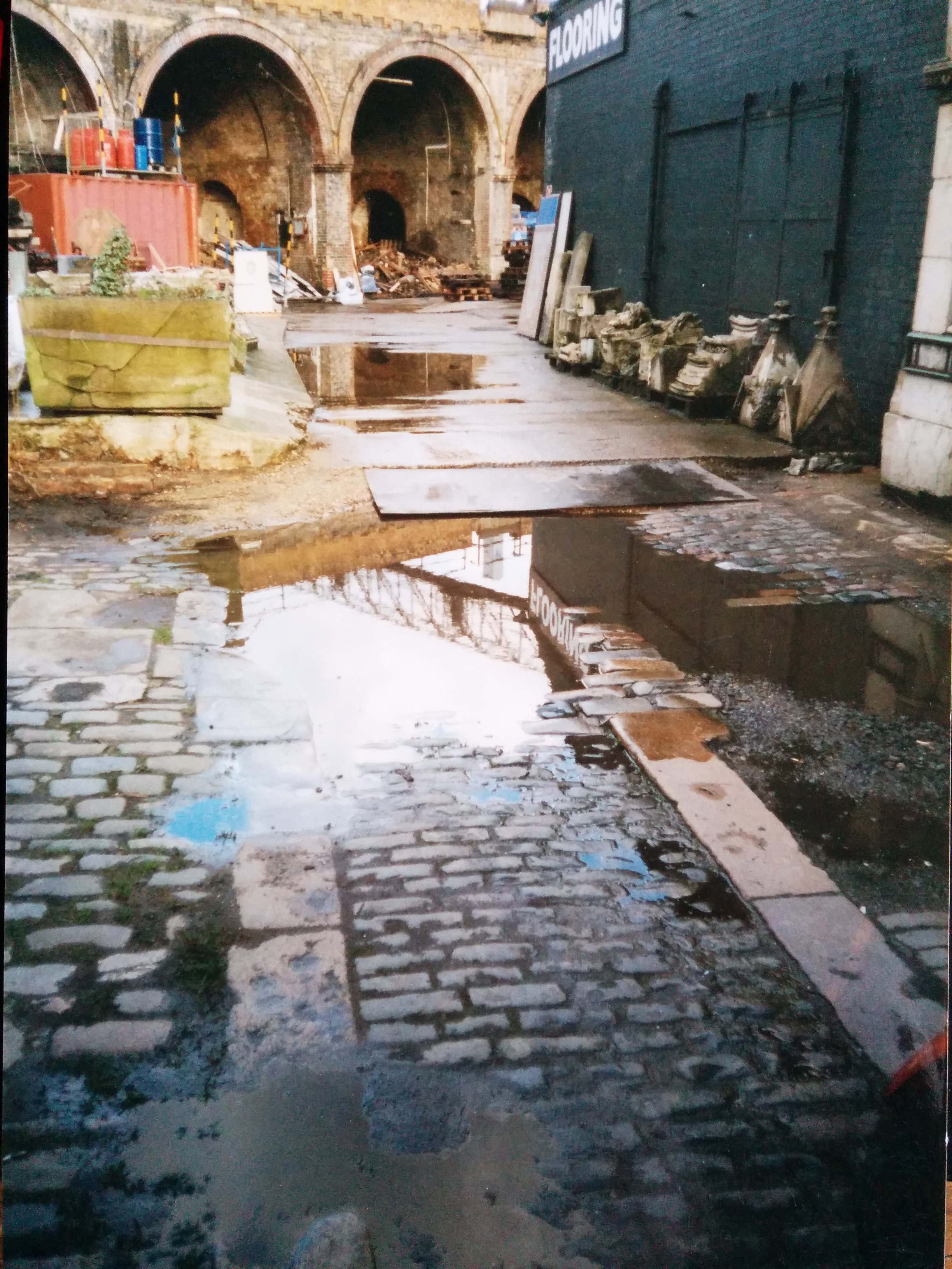 A site of the former condition of the market yard on Maltby Street.